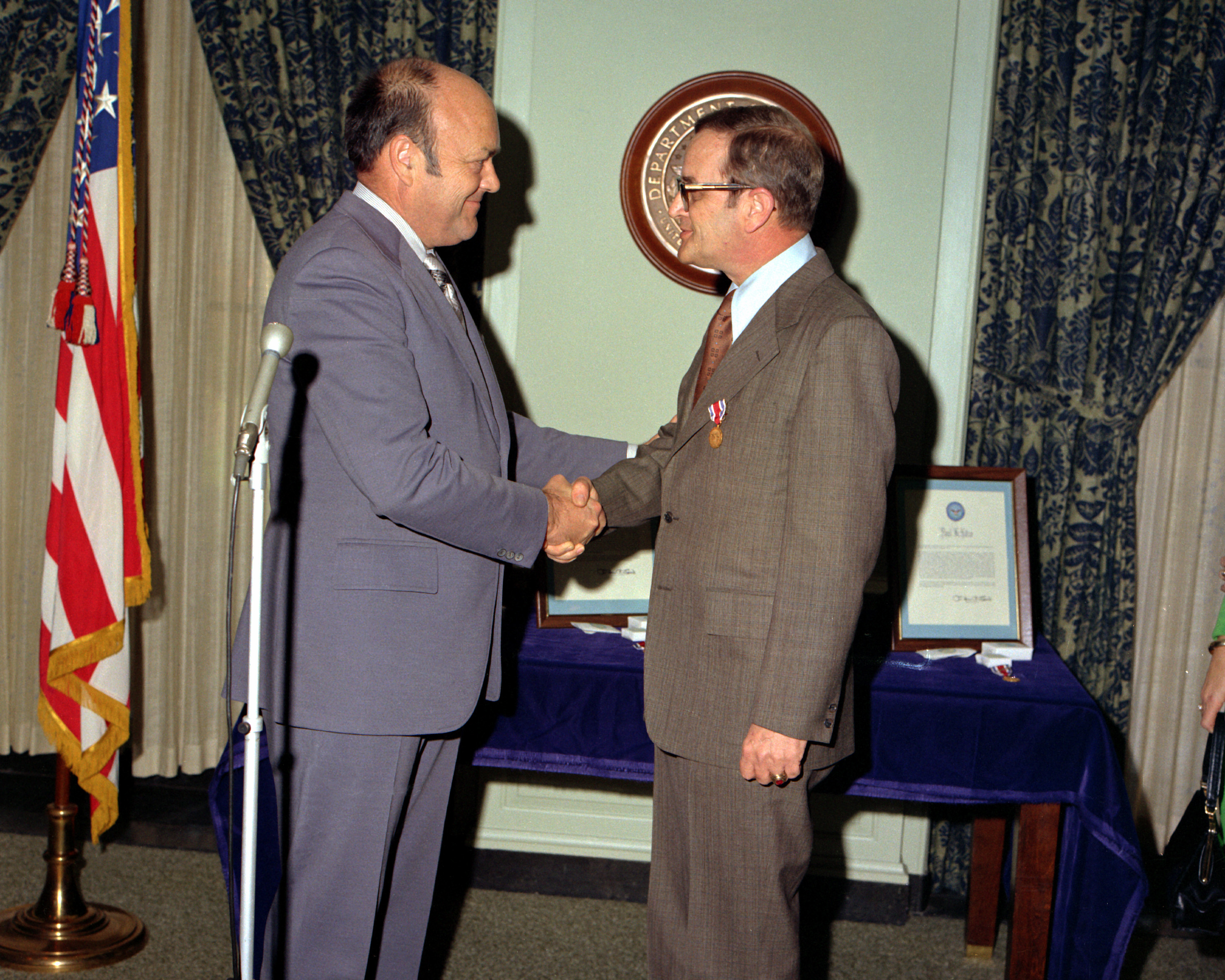 Secretary of Defense Melvin R. Laird, left, congratulates J. Fred Buzhardt Jr., department of defense general counsel, after presenting him with the Department of Defense Distinguished Public Service Medal during a ceremony at the Pentagon. Buzhardt has served in his position since August 20, 1970.